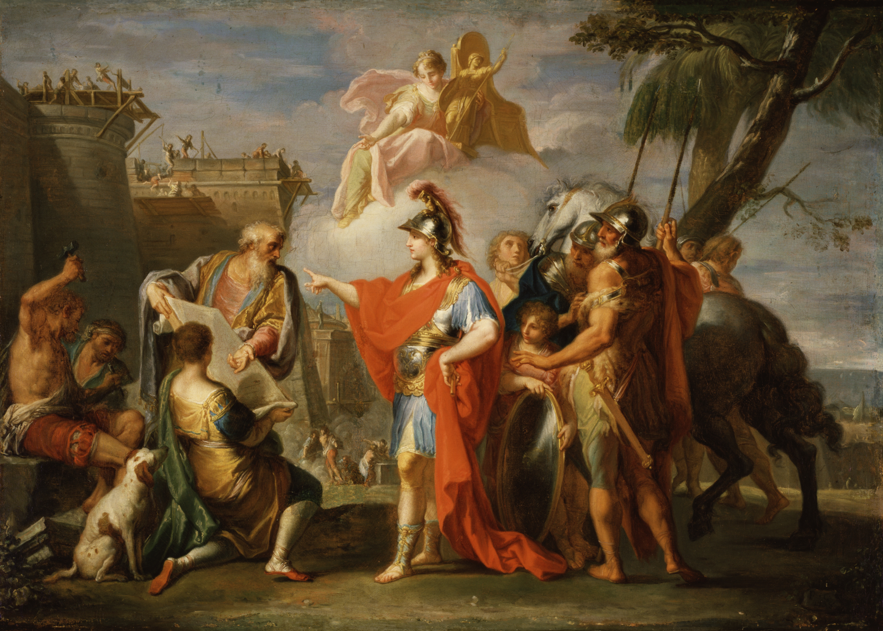 In conquests from Greece and Egypt to Afghanistan, the Macedonian ruler Alexander the Great (356-323 BC) founded cities-often named for himself-in key military and trading locations; Alexandria, in Egypt, is the only one still thriving today. Alexander was often involved in the planning; here, he gives instructions to the Greek architect Dinocrates. Behind them, massive walls are under construction. The painting is a "modello," or study, painted in preparation for one of the large canvases commissioned from the artist for the throne room of King Philip V of Spain in the Palace of San Idelfonso (La Granja). Halls where European rulers granted audiences to their subjects and to visiting emissaries were traditionally decorated with tapestries or paintings reinforcing the ruler's position by reference to the power and renown of rulers of the past, principally Alexander the Great or the Roman emperors. In keeping with his ancient theme, Costanzi adopted a frieze-like composition that recalls Greek and Roman relief sculpture.